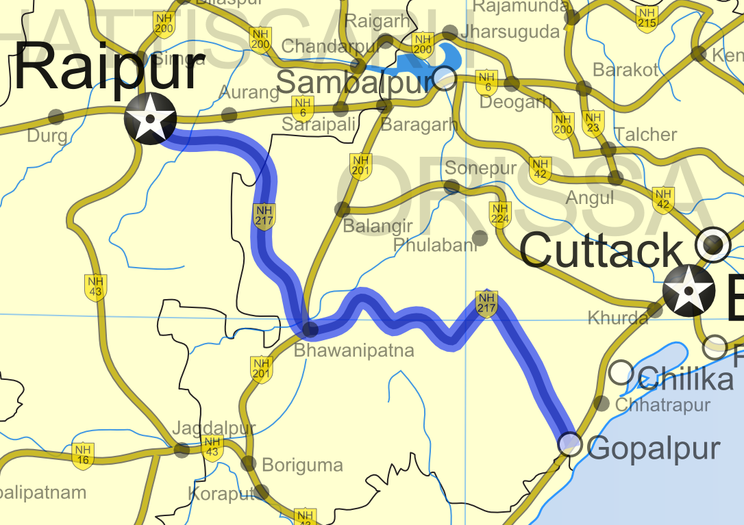 National Highway 217 in India